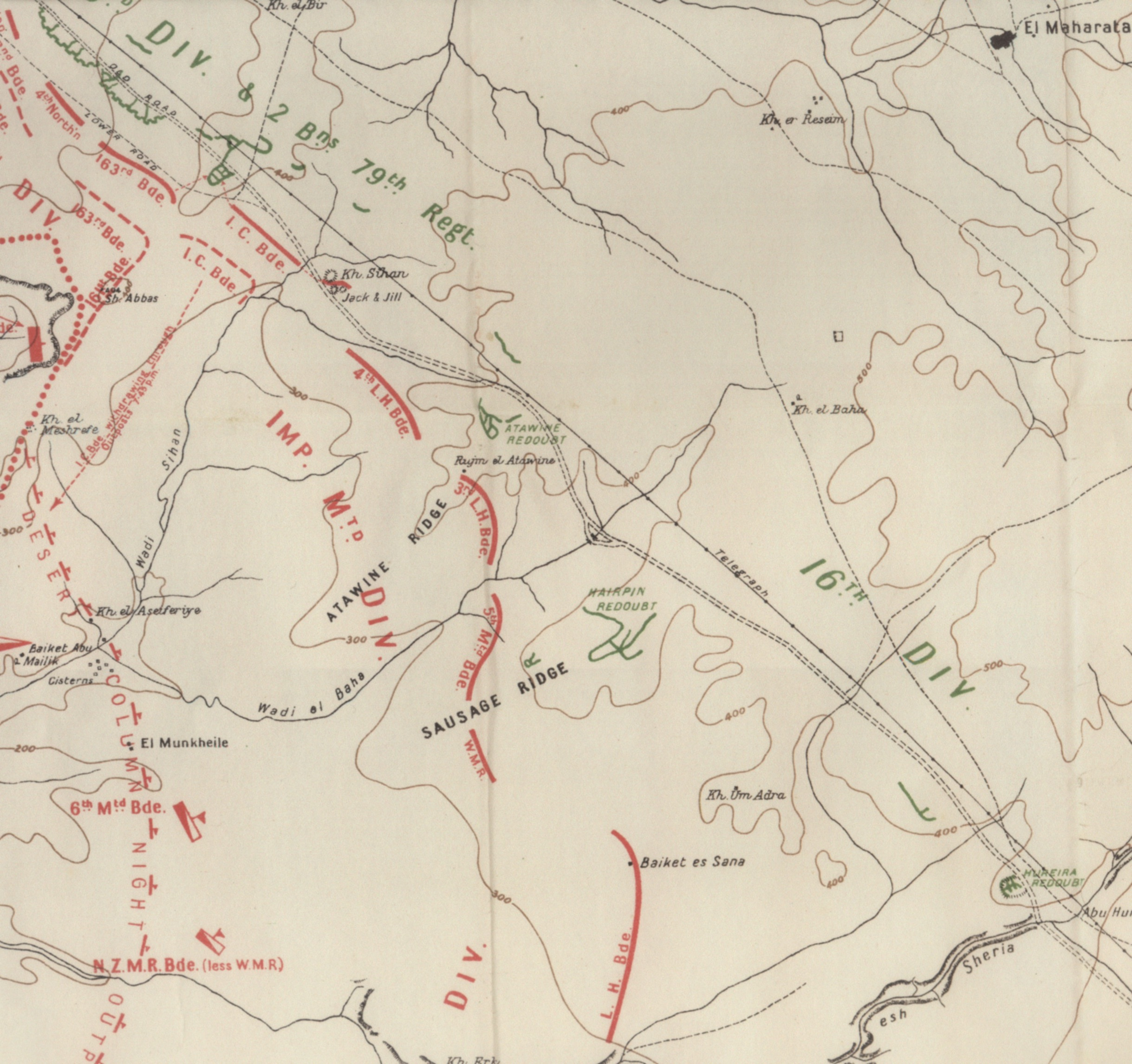 Falls Map 15 Operations on 19 April during Second Battle of Gaza Other information Crown copyright